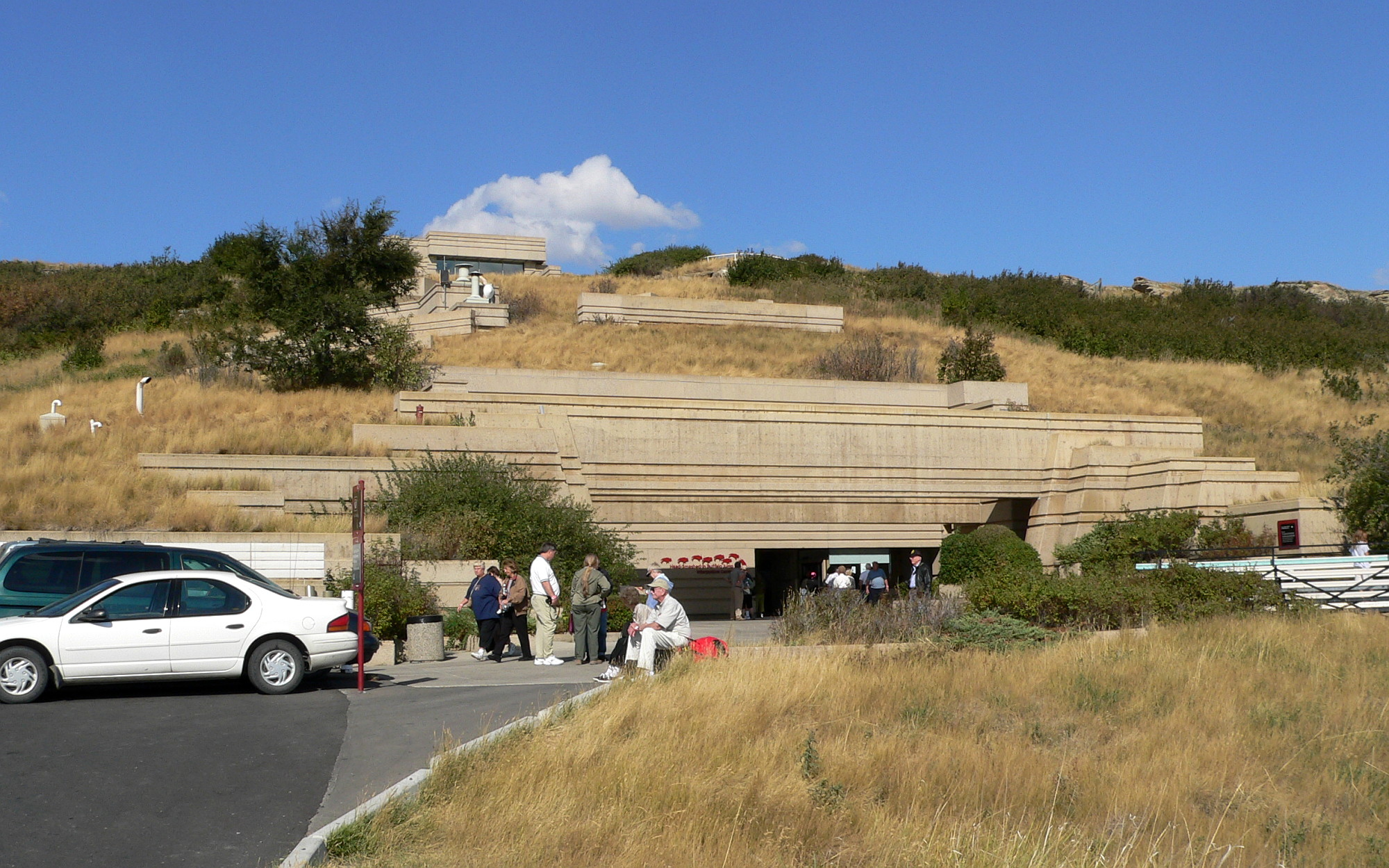 The interpretive center and museum at Head-Smashed-In Buffalo Jump, a World Heritage Site in Alberta, Canada.Photo taken with a Panasonic Lumix DMC-FZ20.